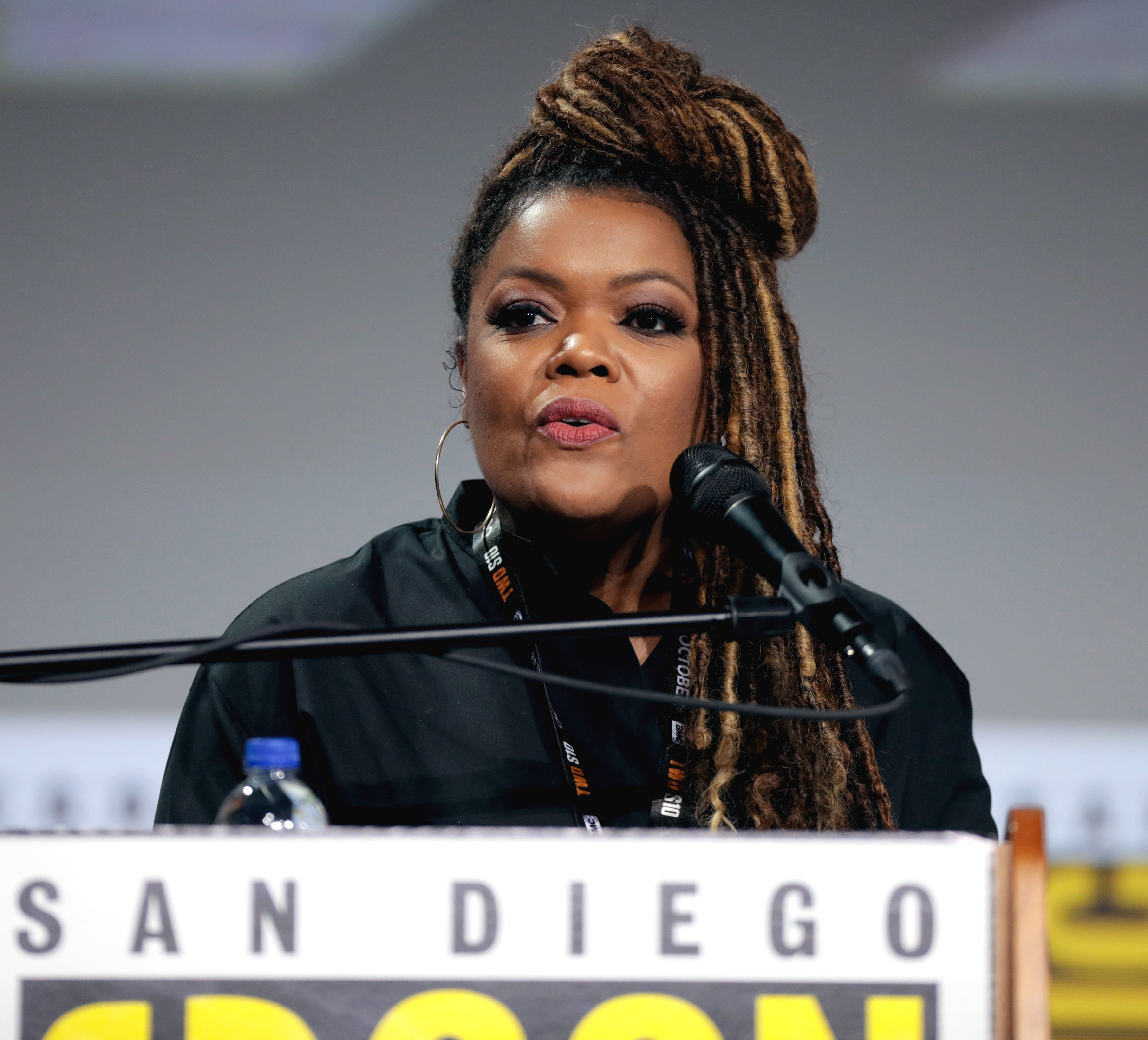 Yvette Nicole Brown speaking at the 2019 San Diego Comic-Con International in San Diego, California.